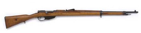 A picture I took at the Dutch Army museum, with the background removed and turned into white.